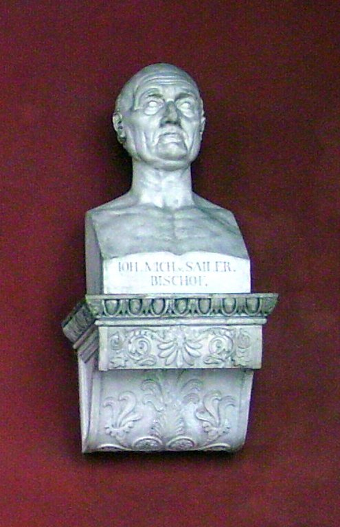 Bust of Ioh. Mich. v. Sailer at Ruhmeshalle ("Hall of fame"), München, Germany. Picture taken by myself: Dominik Hundhammer, München, 27 March 2006.